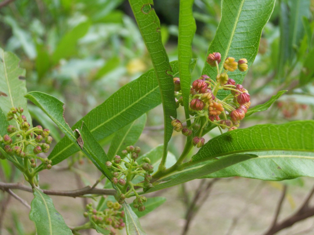 (Dodonea viscosa) - blossom, Réunion island